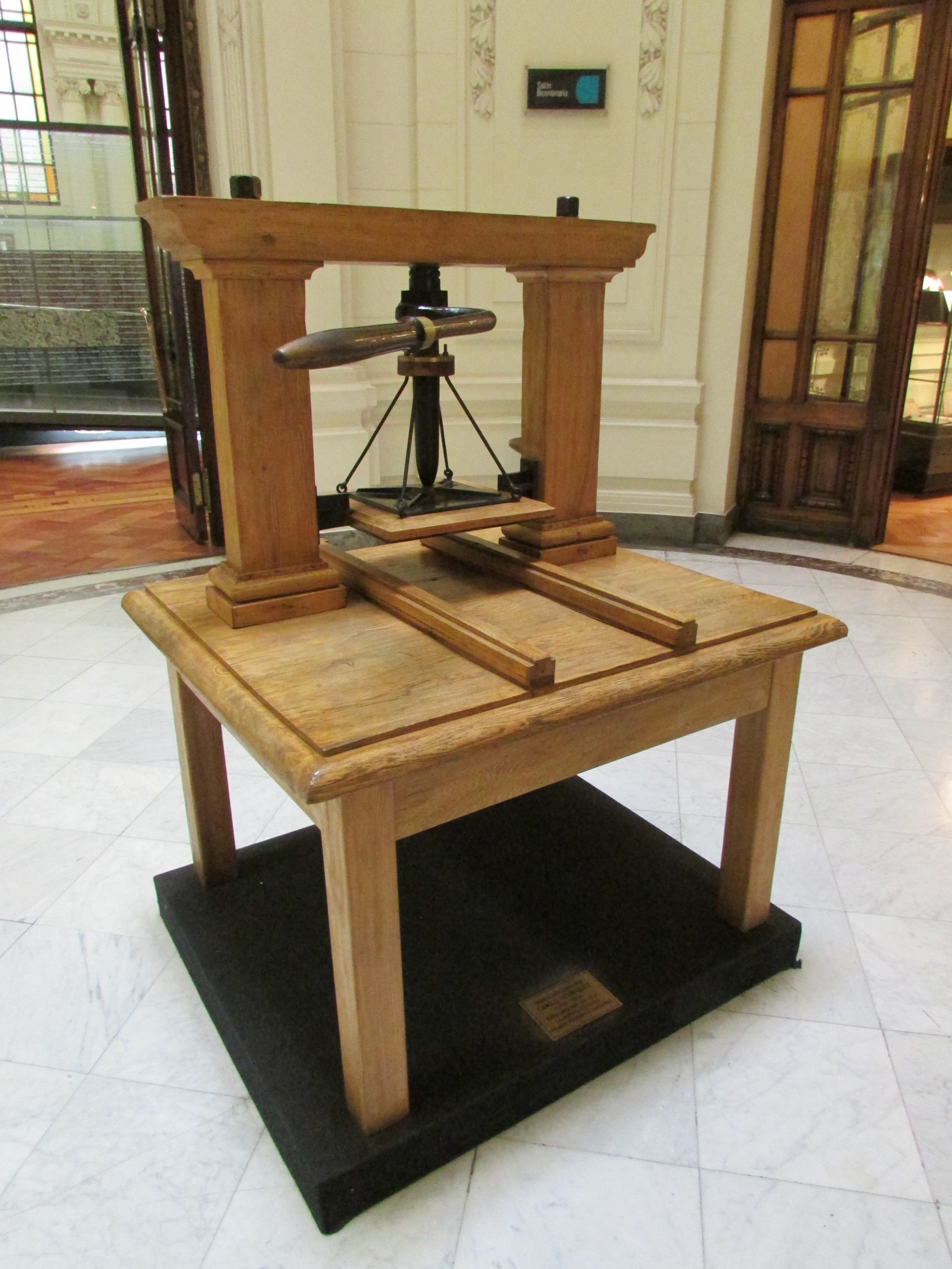 Press used by Camilo Henríquez to print, in 1812, the Aurora de Chile, the first Chilean newspaper.